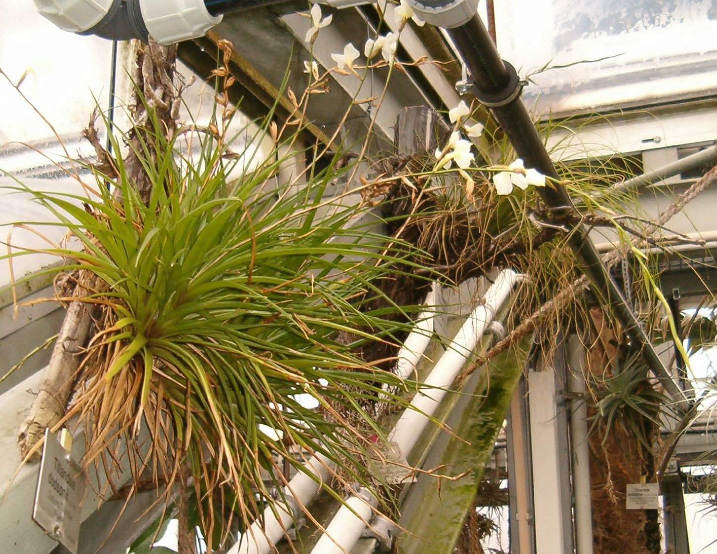 Location: Botanical Gardens Berlin Dahlem Habitus and Inflorescence